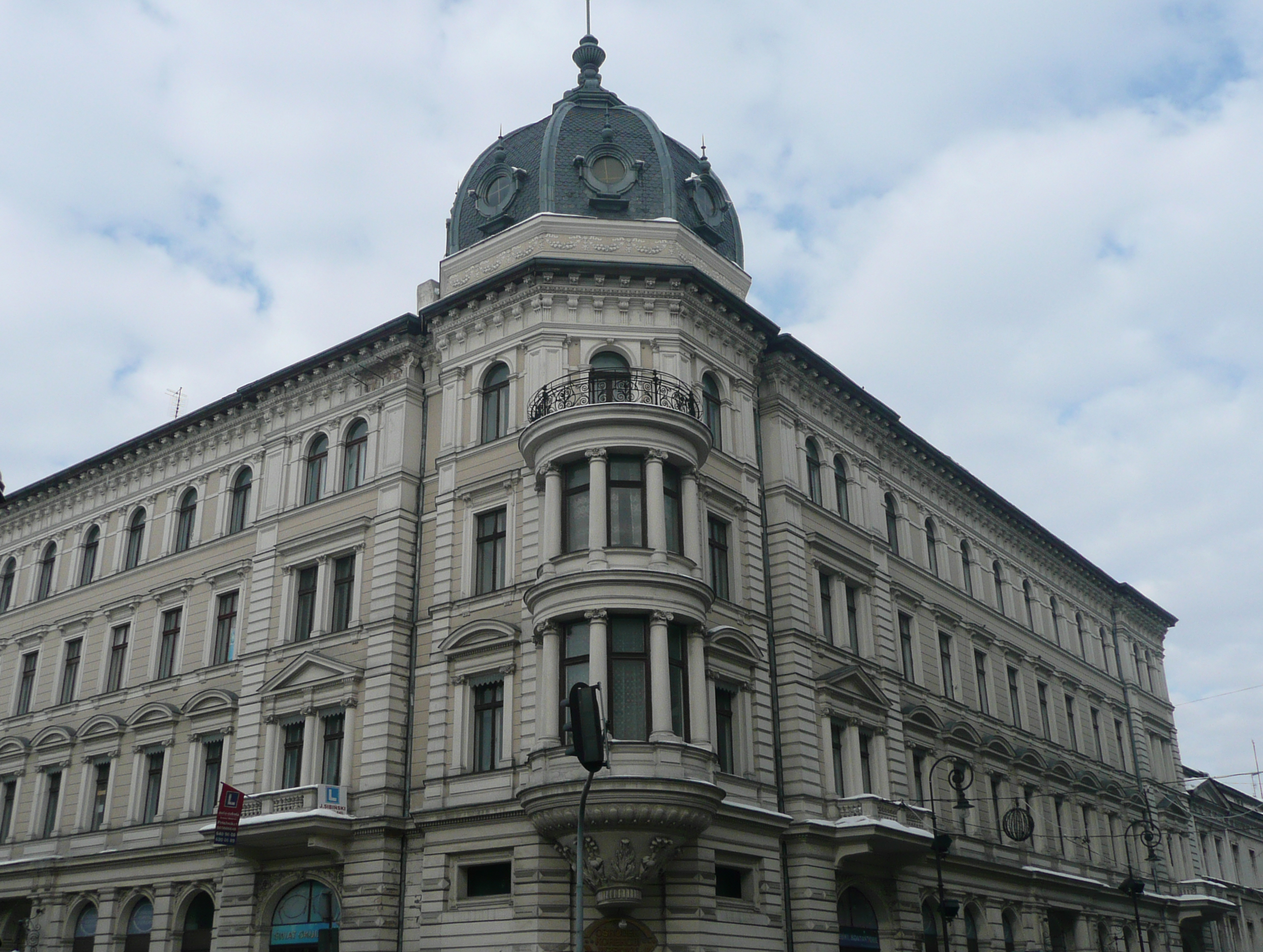 House of Karl Wilhelm Scheibler in Lodz